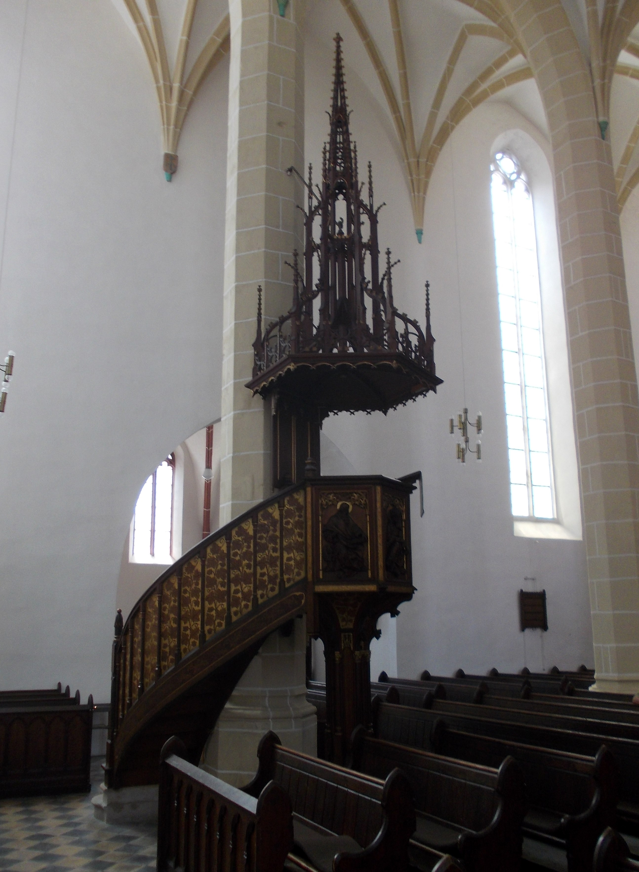 Saints Peter and Paul Church in Delitzsch (Nordsachsen district, Saxony)